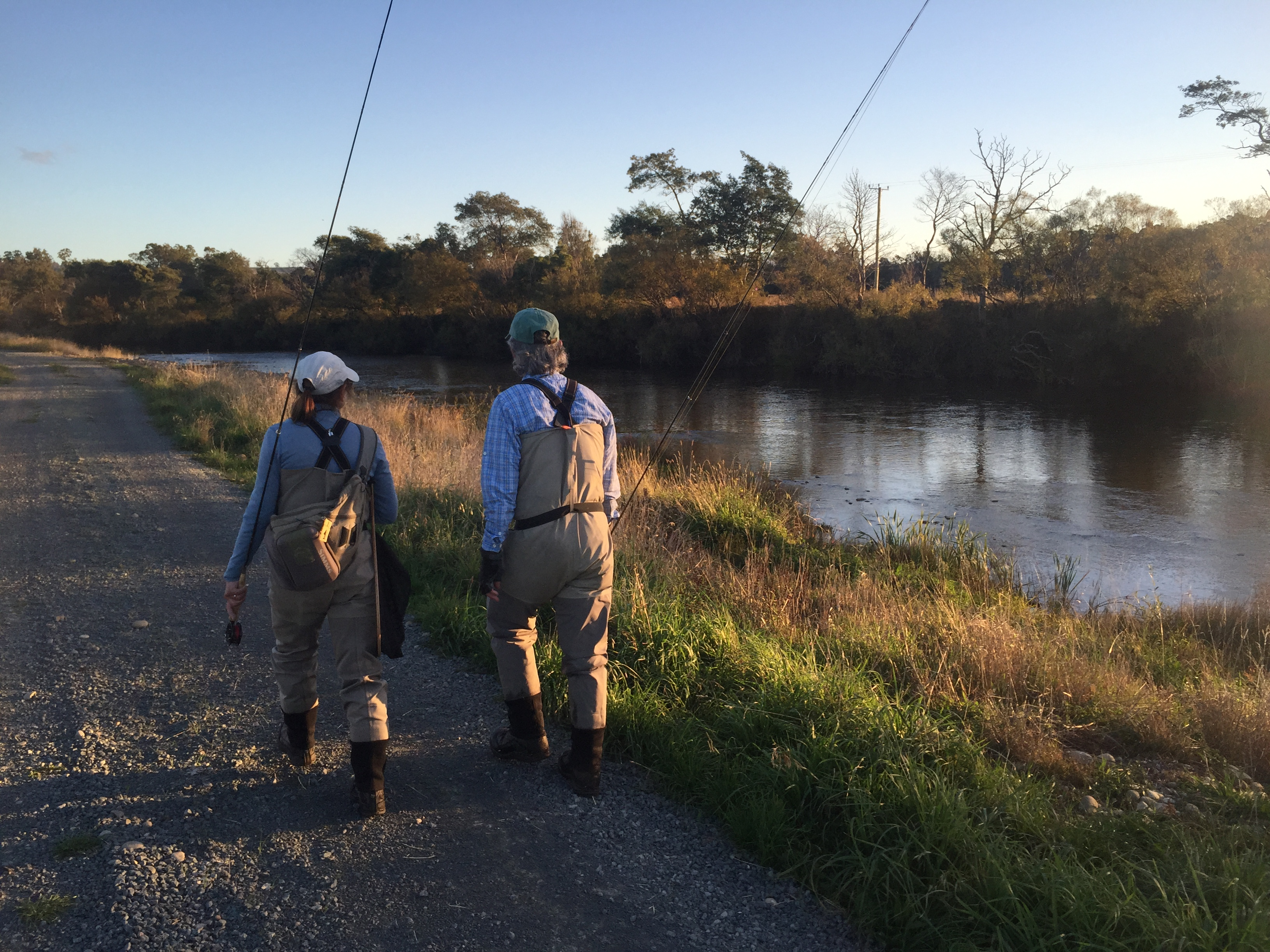 Fly fishing the Mersey River, Tasmania